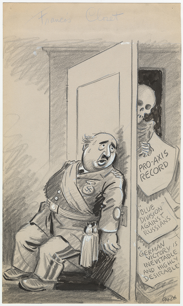 Title: Franco's Closet Creator: Knott, John Francis, 1878-1963 Date: August 5, 1945 Series: 17 - John Knott portrait drawings and cartoons/mode/exact; Knott cartoons, Dallas Morning News/mode/exact Description: This cartoon ran in the Dallas Morning News, August 5, 1945, Section 4, Page 6. Part Of: records, 1842-2007/ Physical Description: 1 drawing: 38 x 22.5 cm File: a2010_0001_17_02_01_108_frances_opt.jpg Rights: Please cite DeGolyer Library, Southern Methodist University when using this file. A high-resolution version of this file may be obtained for a fee. For details see the web page. For other information, . For more information and to view the image in high resolution, View knott ww2/field/all/mode/all/conn/and/cosuppress/ View 17 Knott/ View